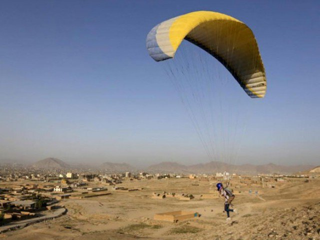 Paragliding 1